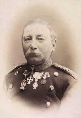 Theodor Freiesleben (1825-1906), Danish Major General